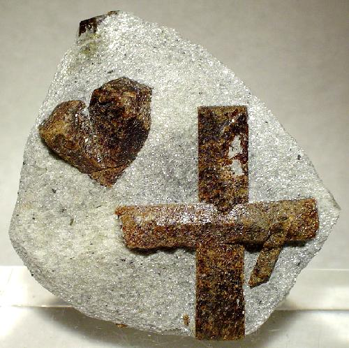 Staurolite Locality: Pestsovye Keivy, Keivy Mountains, Kola Peninsula, Murmanskaja Oblast', Northern Region, Russia (Locality at ) An aesthetic and showy specimen of sharp, lustrous brown cruciform-twinned and V-twinned staurolite crystals on sparkly muscovite schist from the Kola Peninsula of Russia. An excellent piece with two different crystal habits. You RARELY see both stereotypical crystal forms for the species in close proximity on the same specimen - this is truly exceptional, even if color-challenged I admit. 5.7 x 5.3 x 2.1 cm This Photo was Photo of the Day - 5th Nov 2008